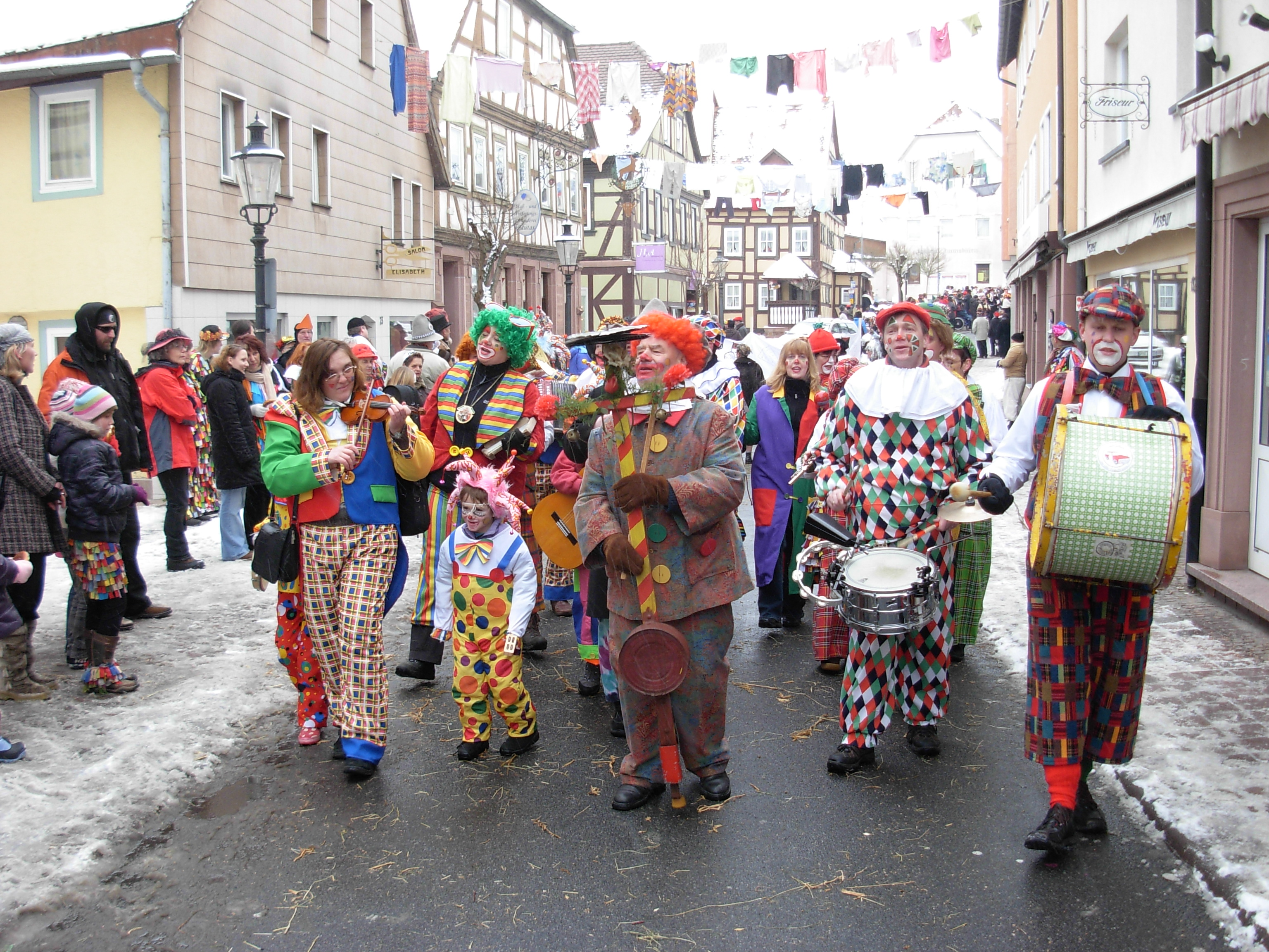 Carnival band in Buchen (Odenwald), Germany